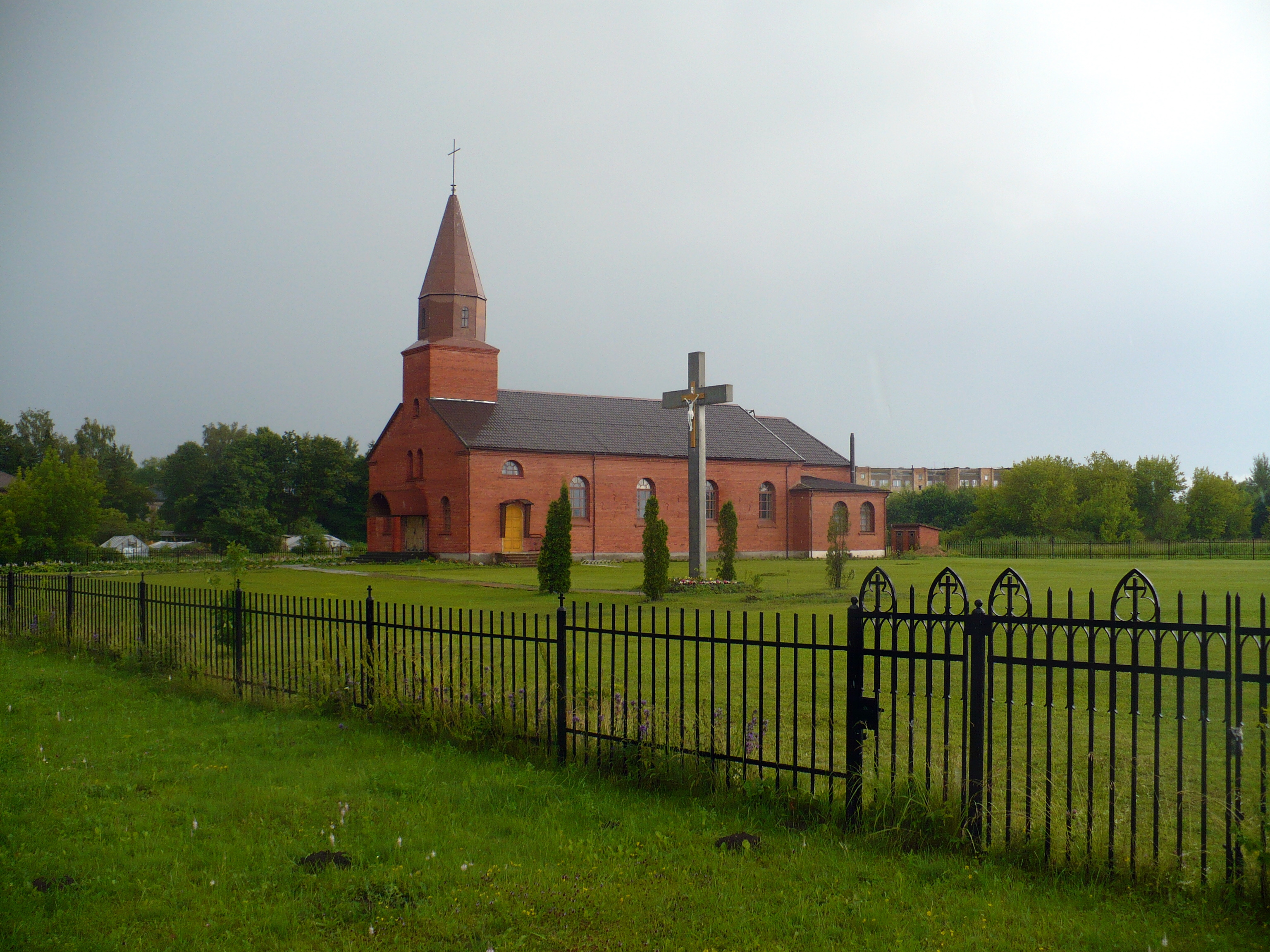 Church in Kalnciems. July, 2008